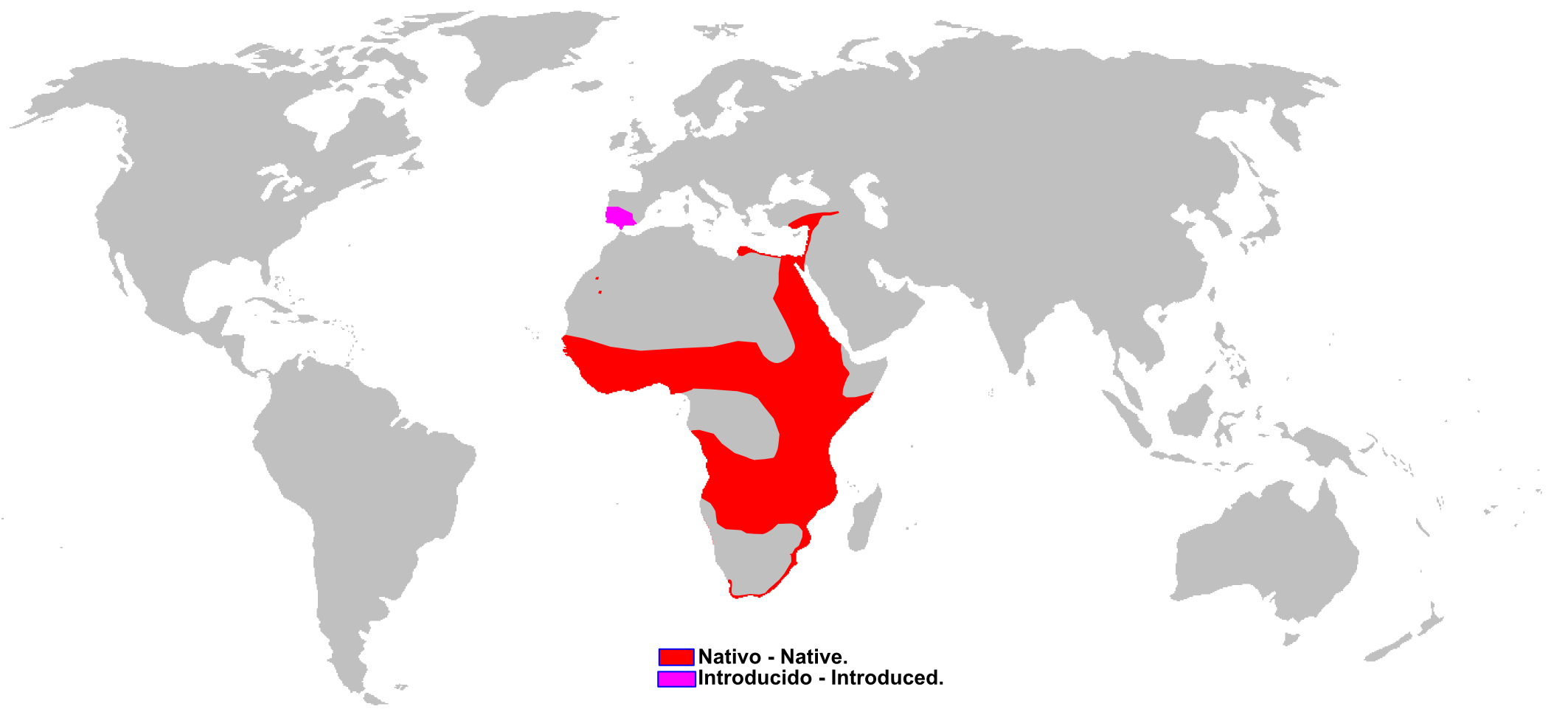 Herpestes ichneumon range map.